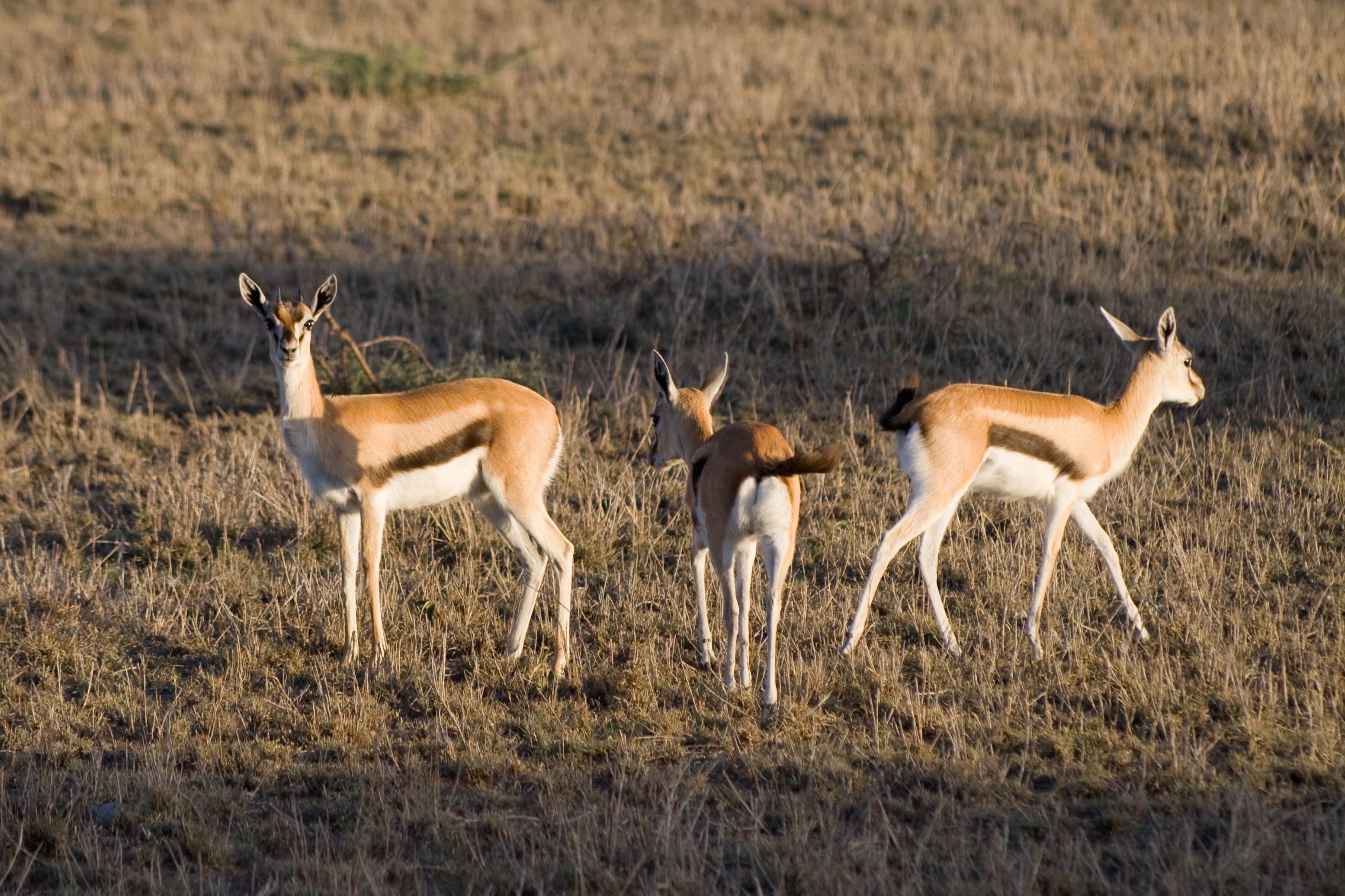 Female Thomson's Gazelles.